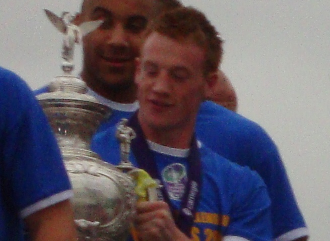 Warrington Wolves - Challenge Cup Winners 2009 50,000 fans come to see the Warrington Wolves bring home the Challenge Cup